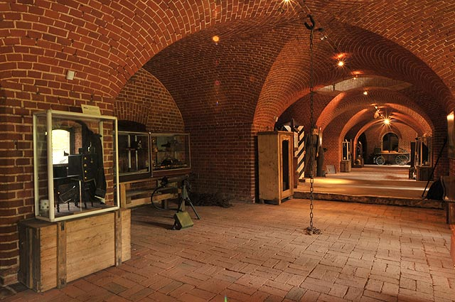 Muzeum Obrony Wybrzeża w Świnoujściu- wnętrze redity Fortu Gerharda.